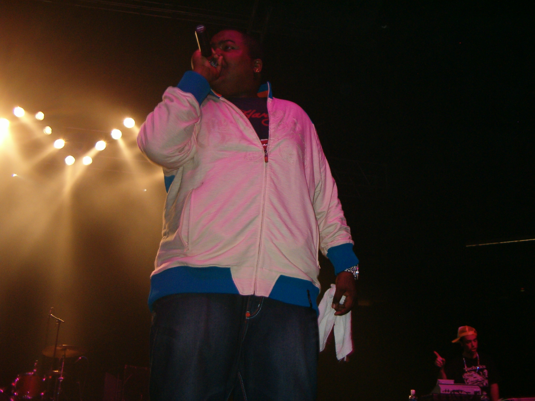 Sean Kingston at the "Last Chance Summer Dance" concert in Clemson, South Carolina.